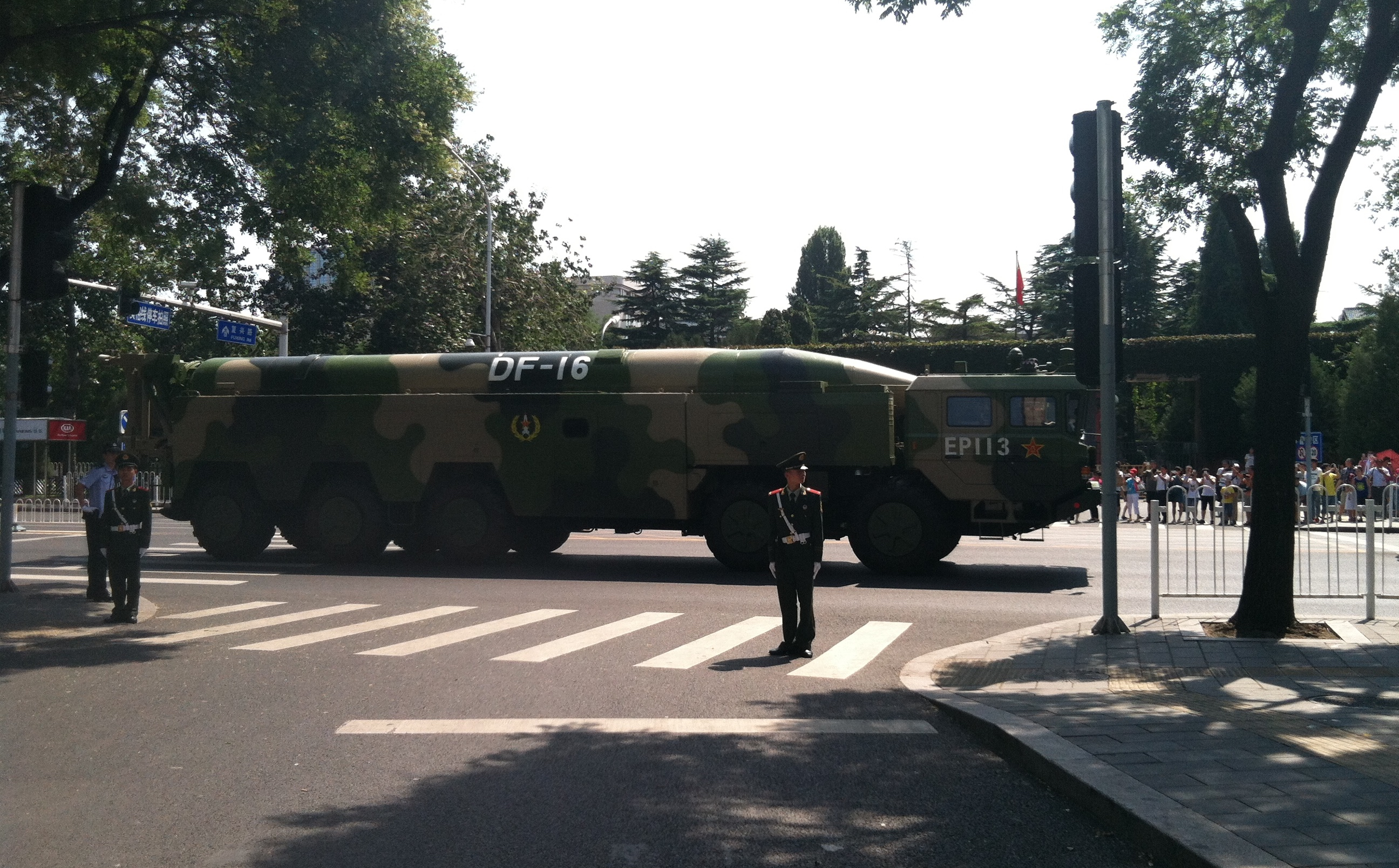 The newly developed DF-16 ballistic missile of the Chinese military, as seen after the military parade held in Beijing on September 3, 2015 to commemorate 70 years since the end of WWII.